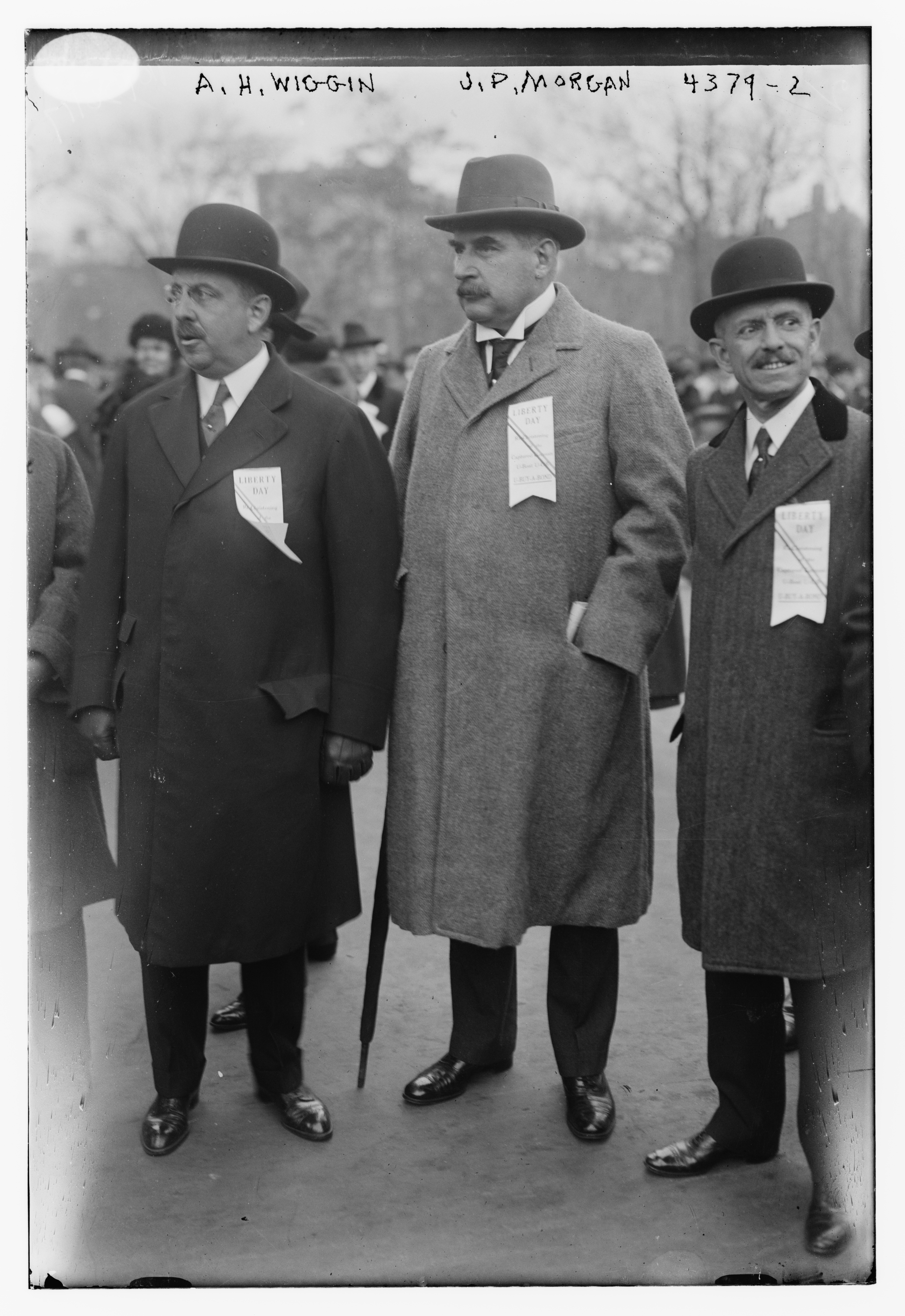 A.H. Wiggin & J.P. Morgan in 1917 in Manhattan at a war bond parade Liberty Day ribbons: October 24, 1917, was declared by President Woodrow Wilson as Liberty Day